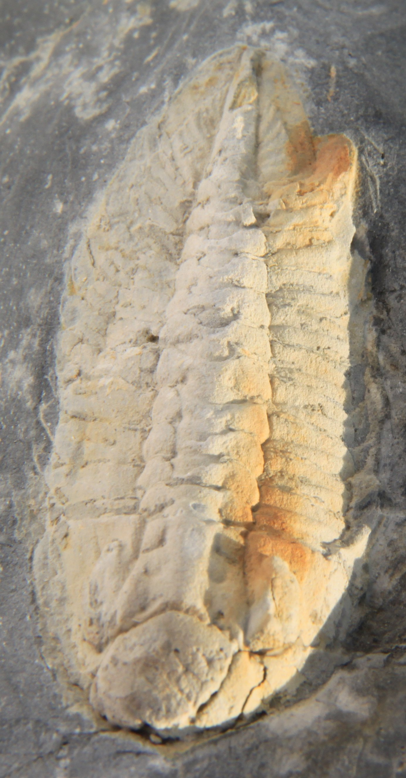 A Zeliszkella torrubiae trilobite, Order Phacopida, Family Dalmanitidae, 65mm along its axis, dorso-frontal view, found at the Valongo, Portugal, from the Upper Ordovician